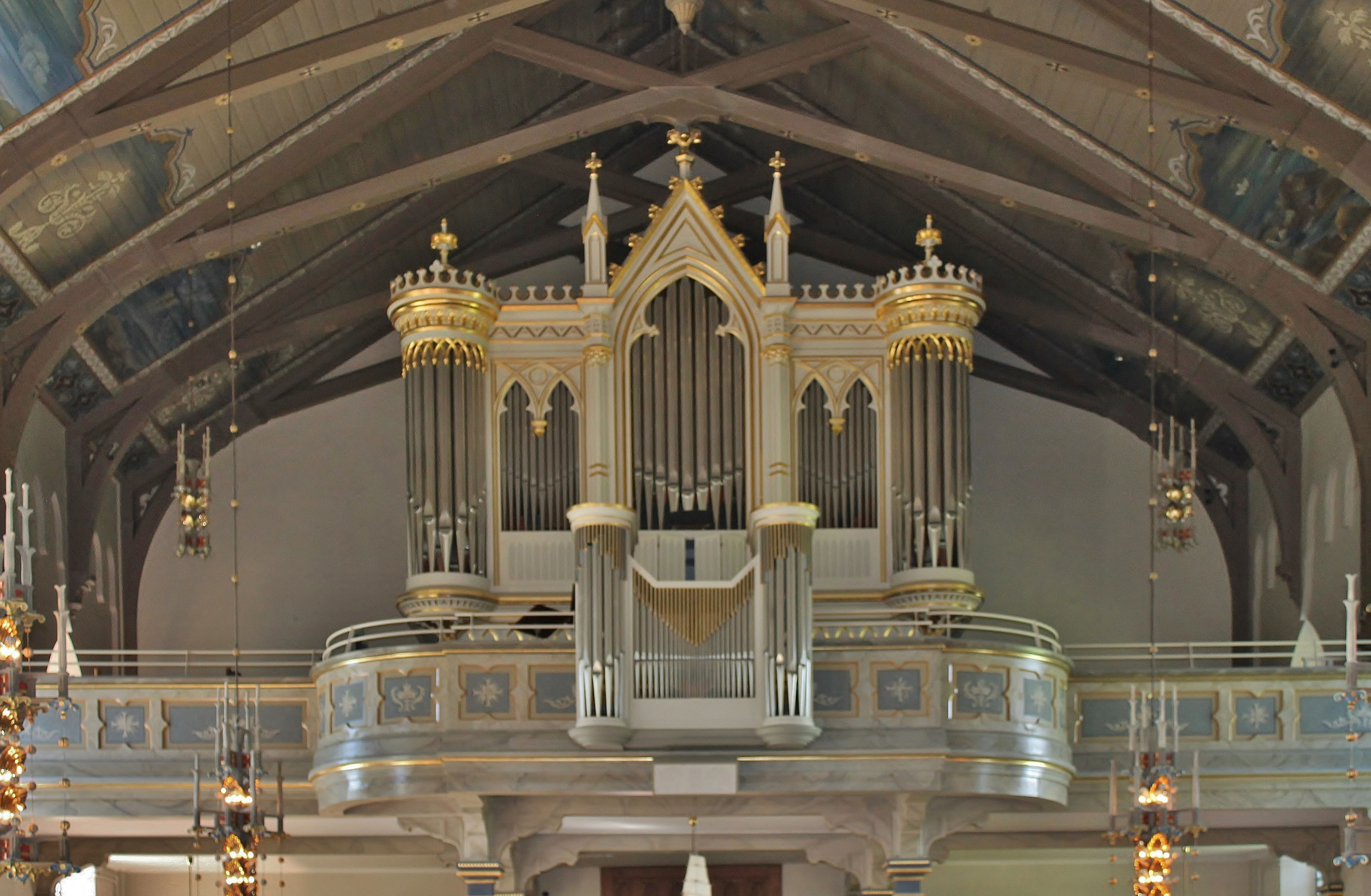 Oskarshamn Church. The organ